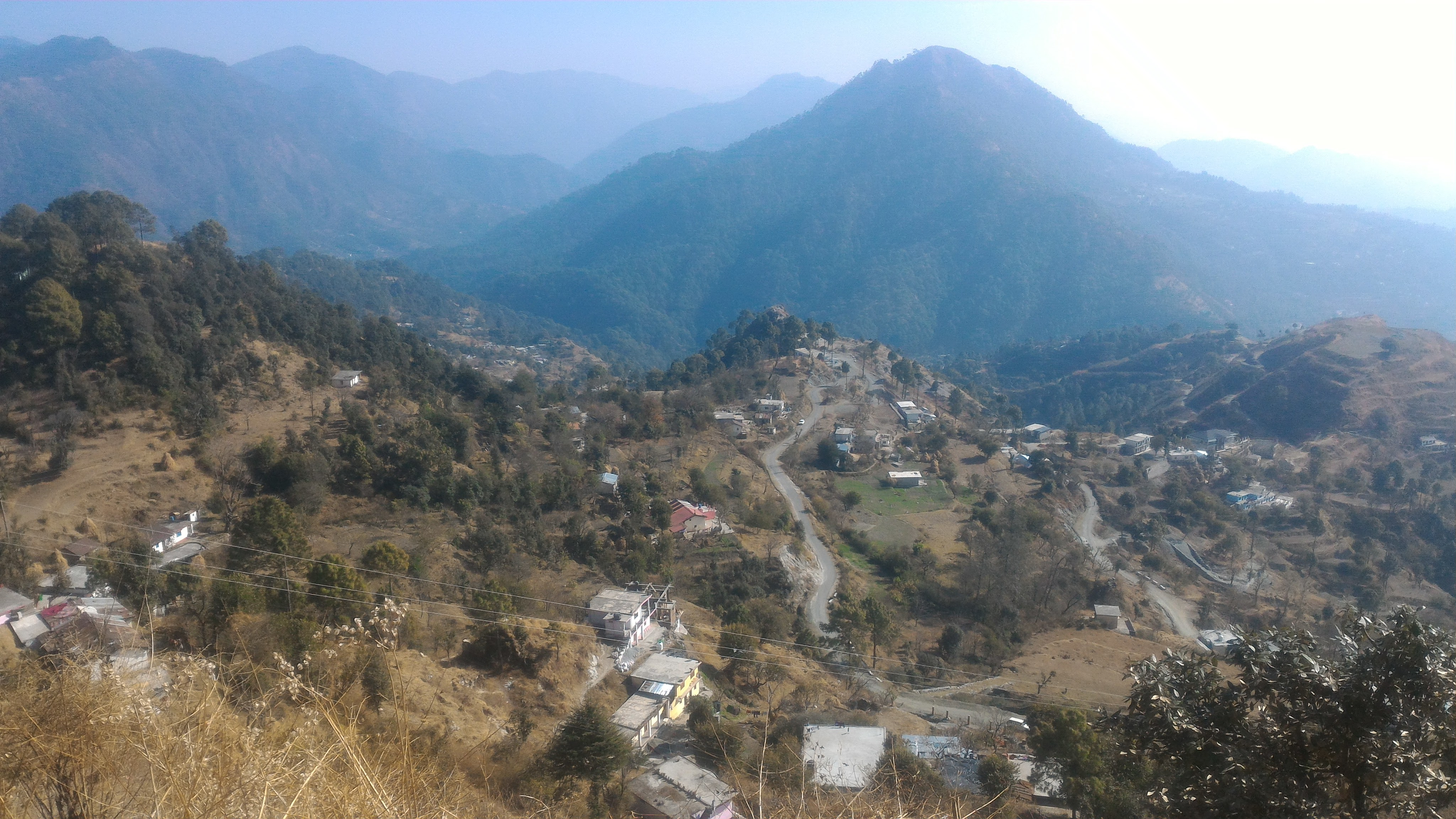 View of mountain range from Ghorakhal